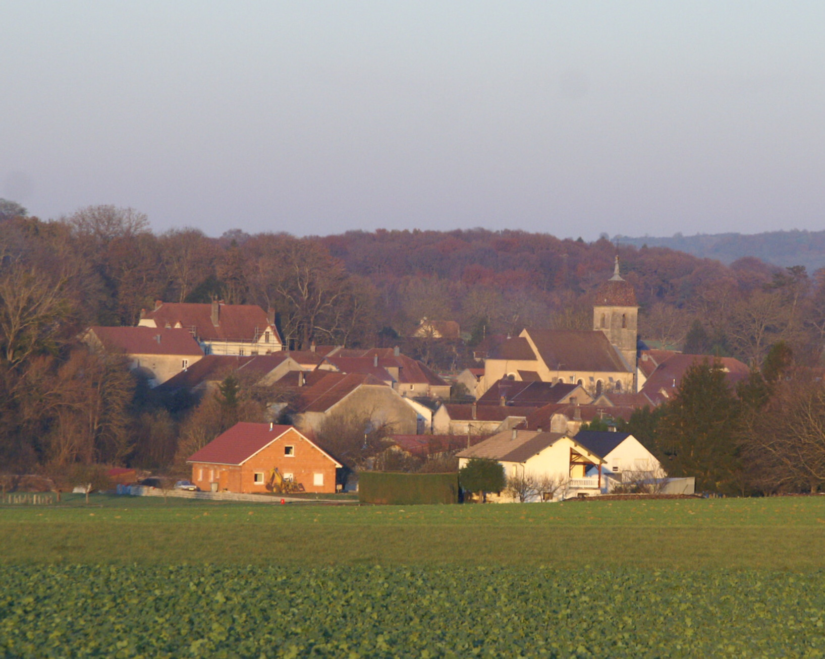 view of Raze (Franche-Comté) with its Comté bell tower (imperial style)